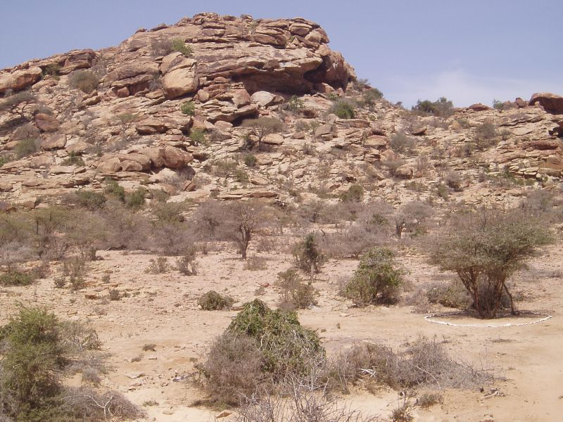 Laas Geel rock near Hargeisa, northern Somalia, known for containing Neolithic rock art.